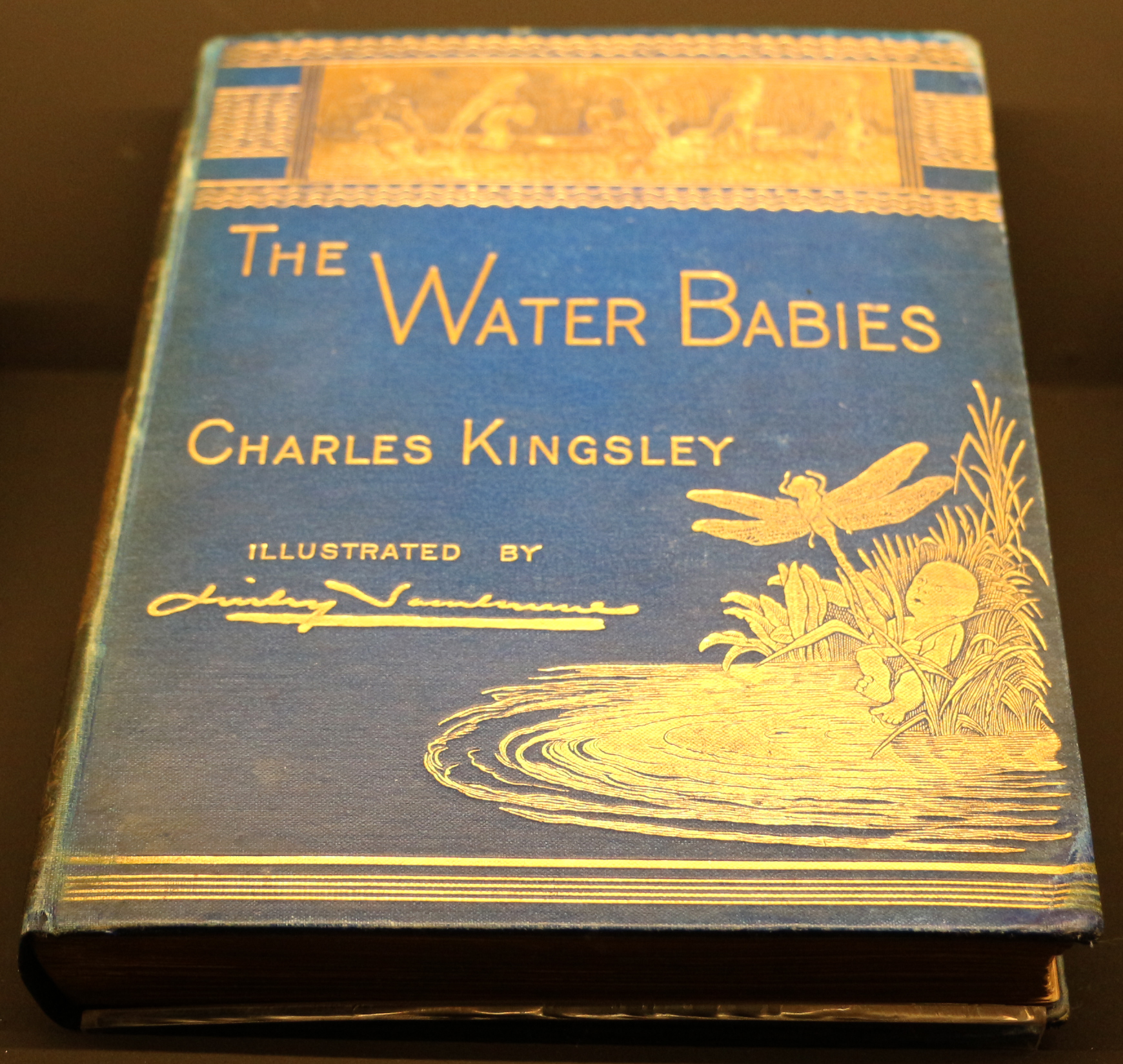 Books in Florence